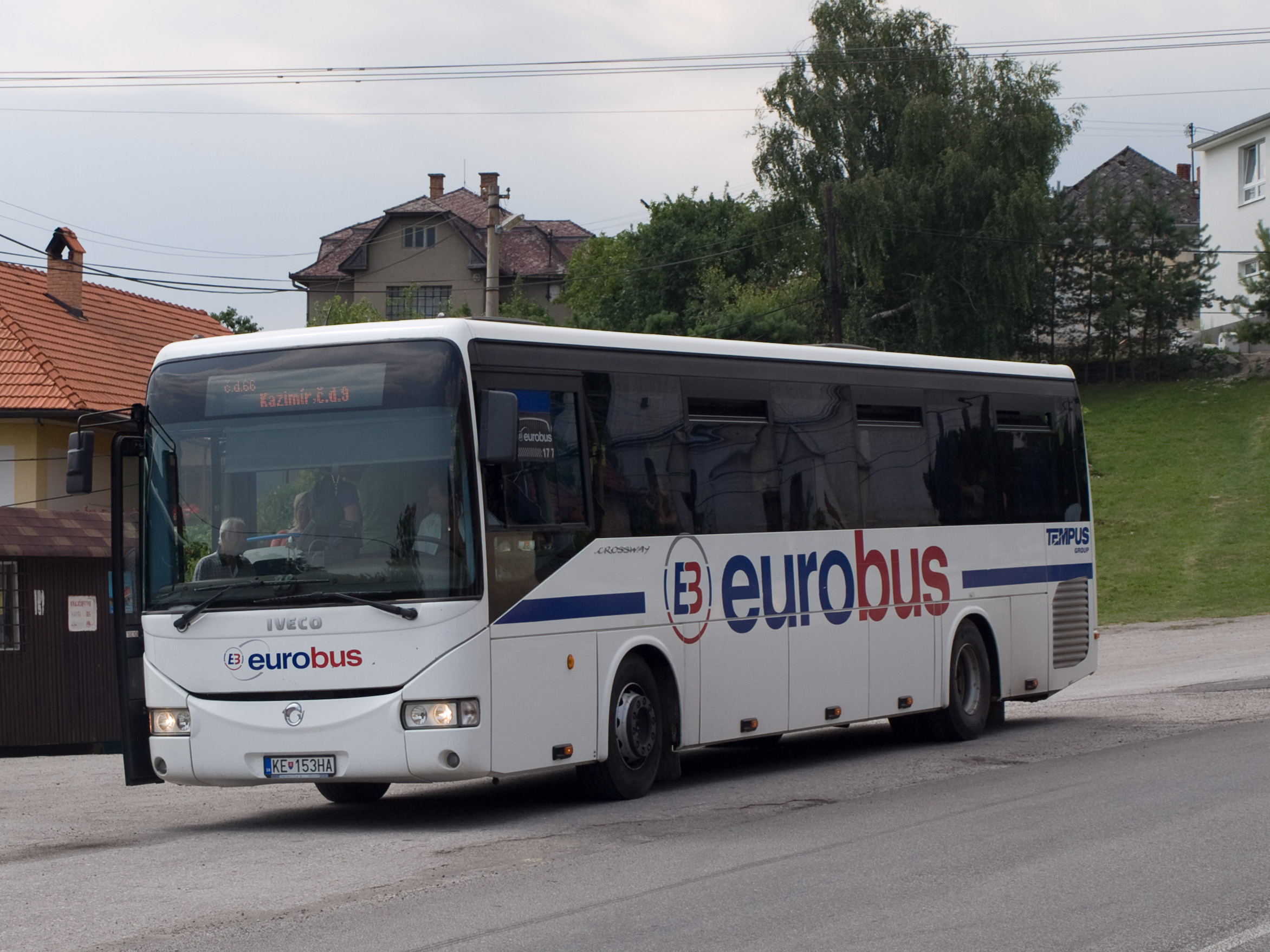 Irisbus Crossway, Slanec, Košice-okolie District